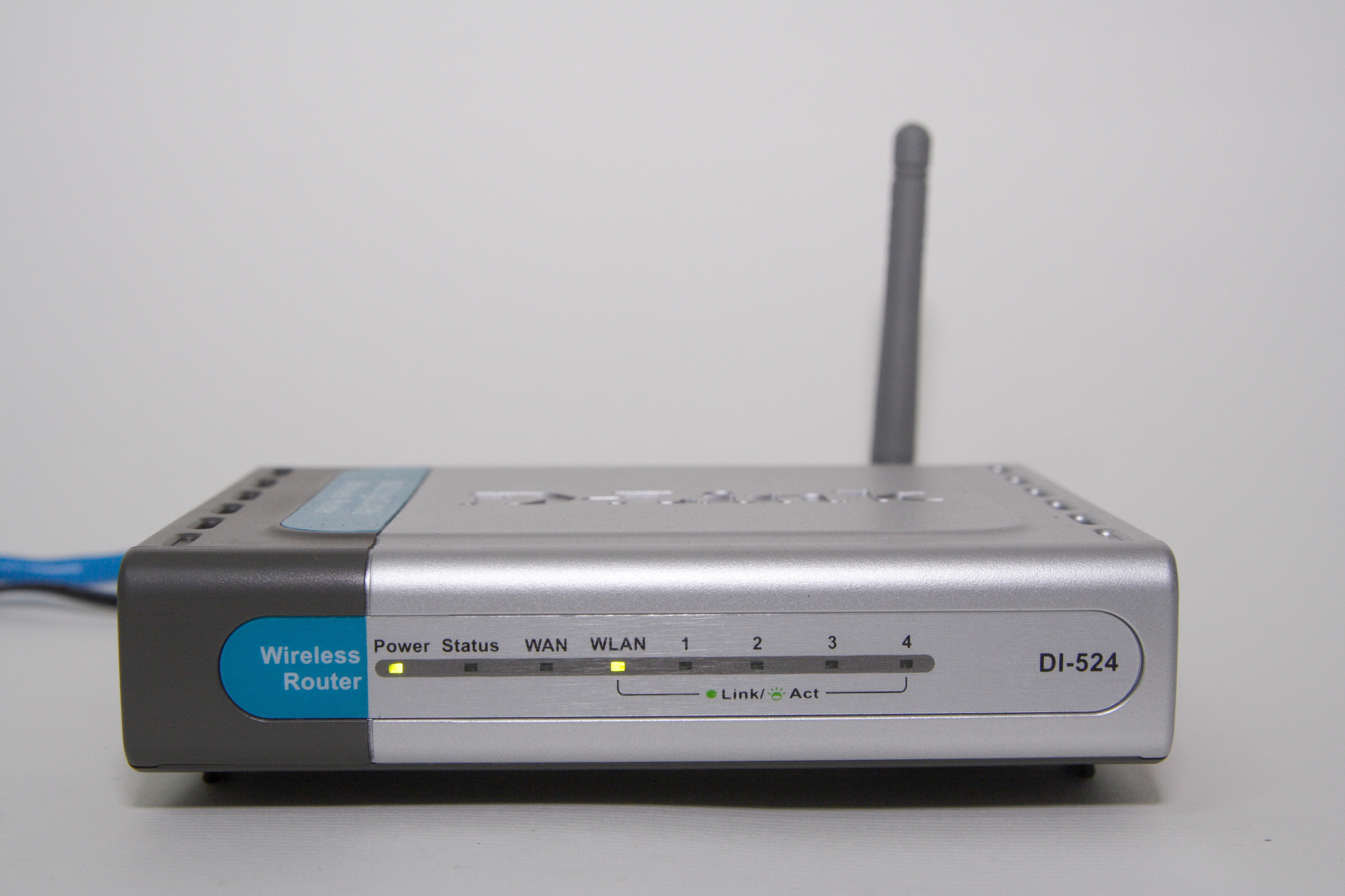 D-Link DI-524 Router.